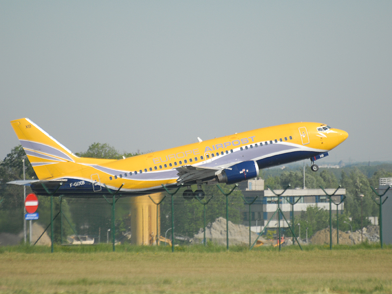 A Boeing 737 of Europe Airpost takes off Brussels Airport .